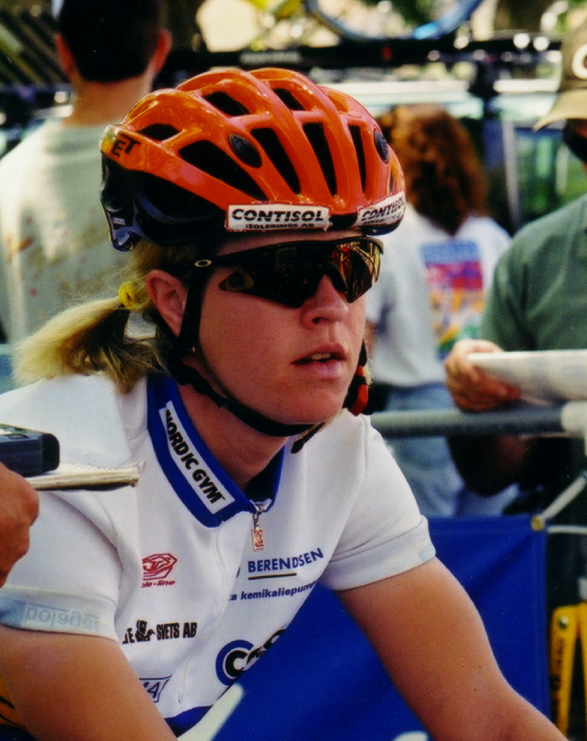 Susanne Ljungskog awaits her turn at the start of the Swan Falls Dam to Melba Time Trial (1999 Women's Challenge).